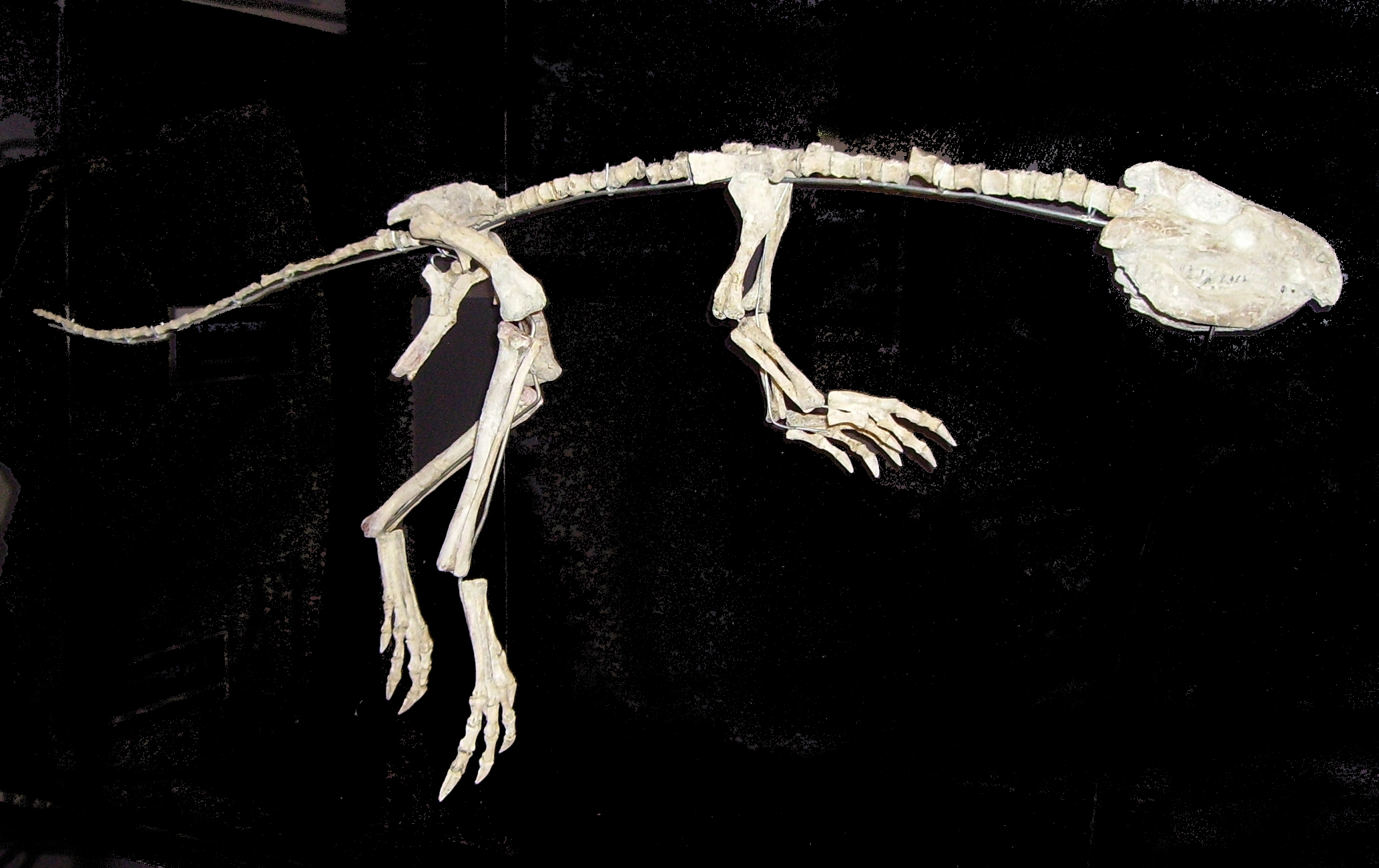 Jeholosaurus shangyuanensis skeleton reconstruction (Dinosaurland, Lyme Regis).